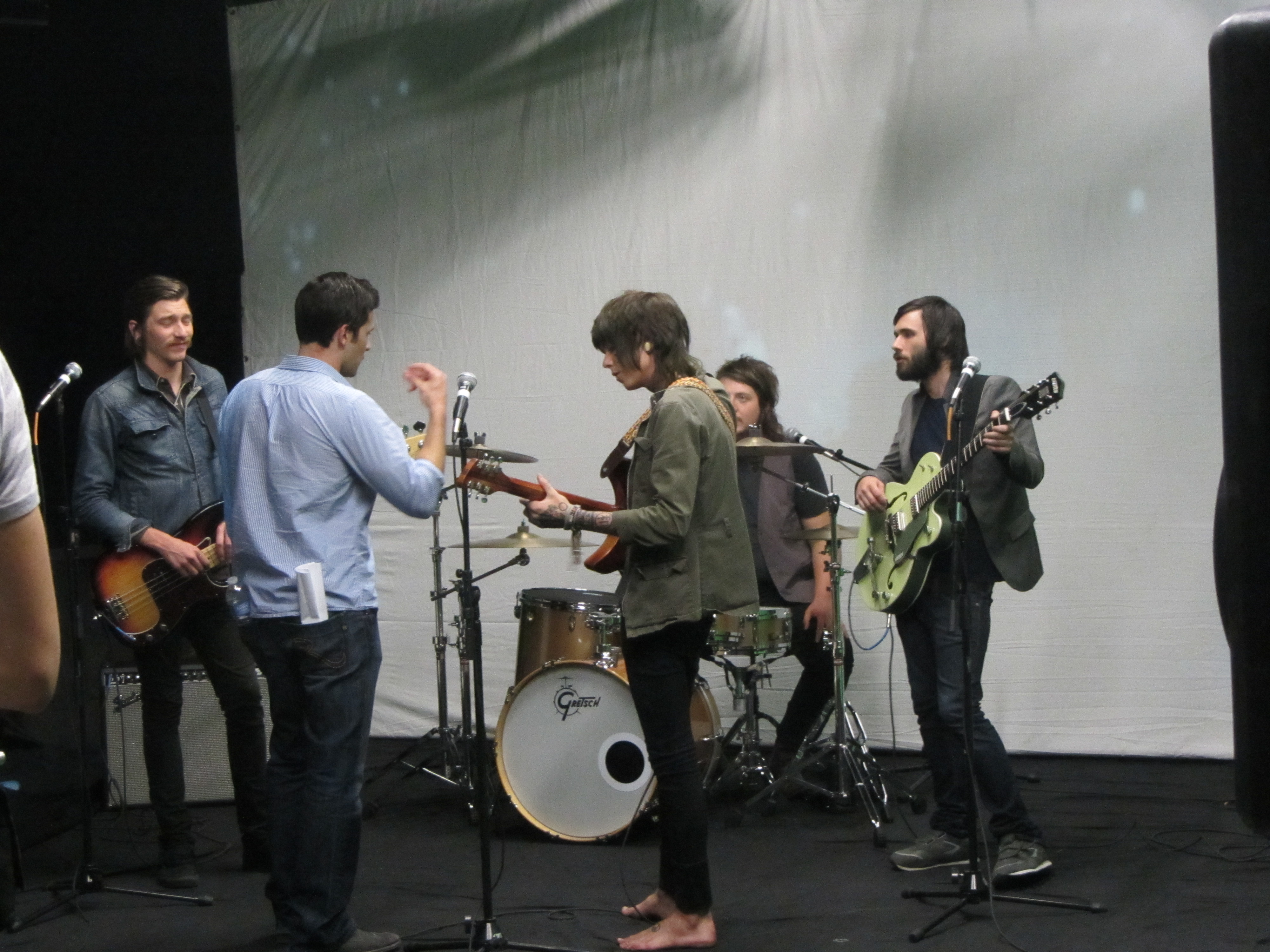 Never Shout Never shoots their latest music video at Loyal Studios in Burbank California